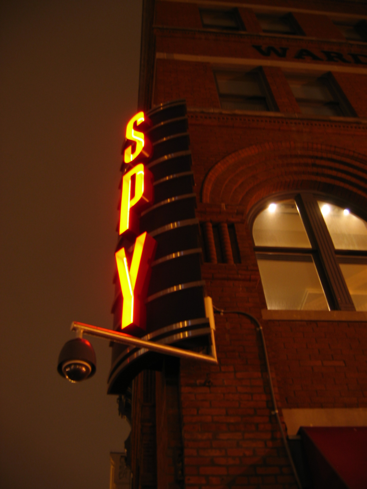 International Spy Museum in Washington, D.C. Photo taken by Kmf164 on January 11, 2006.